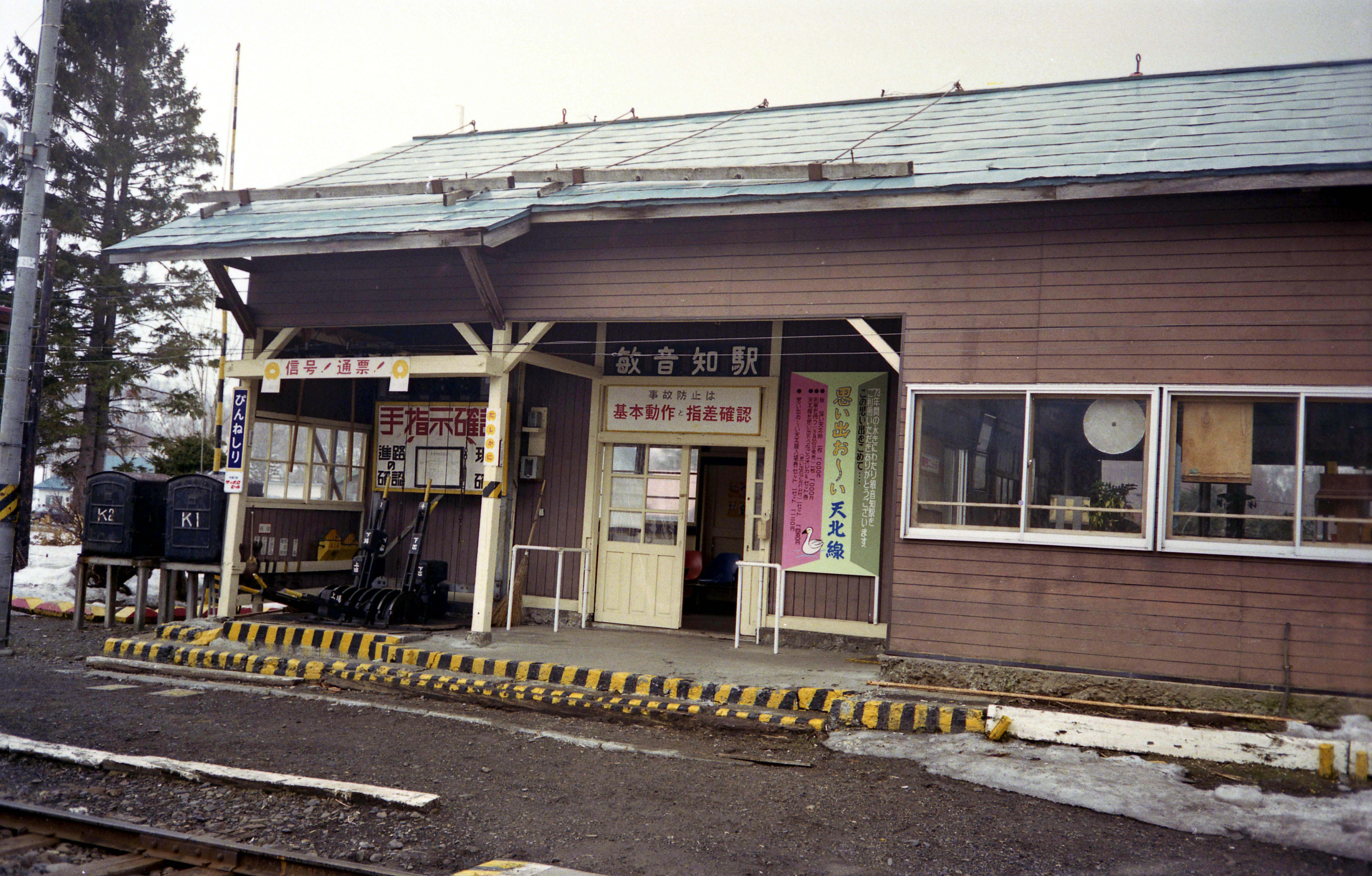 The part of the building of Pinneshiri Station,Hokkaido Railway Company Tenpoku Line(before abolished)